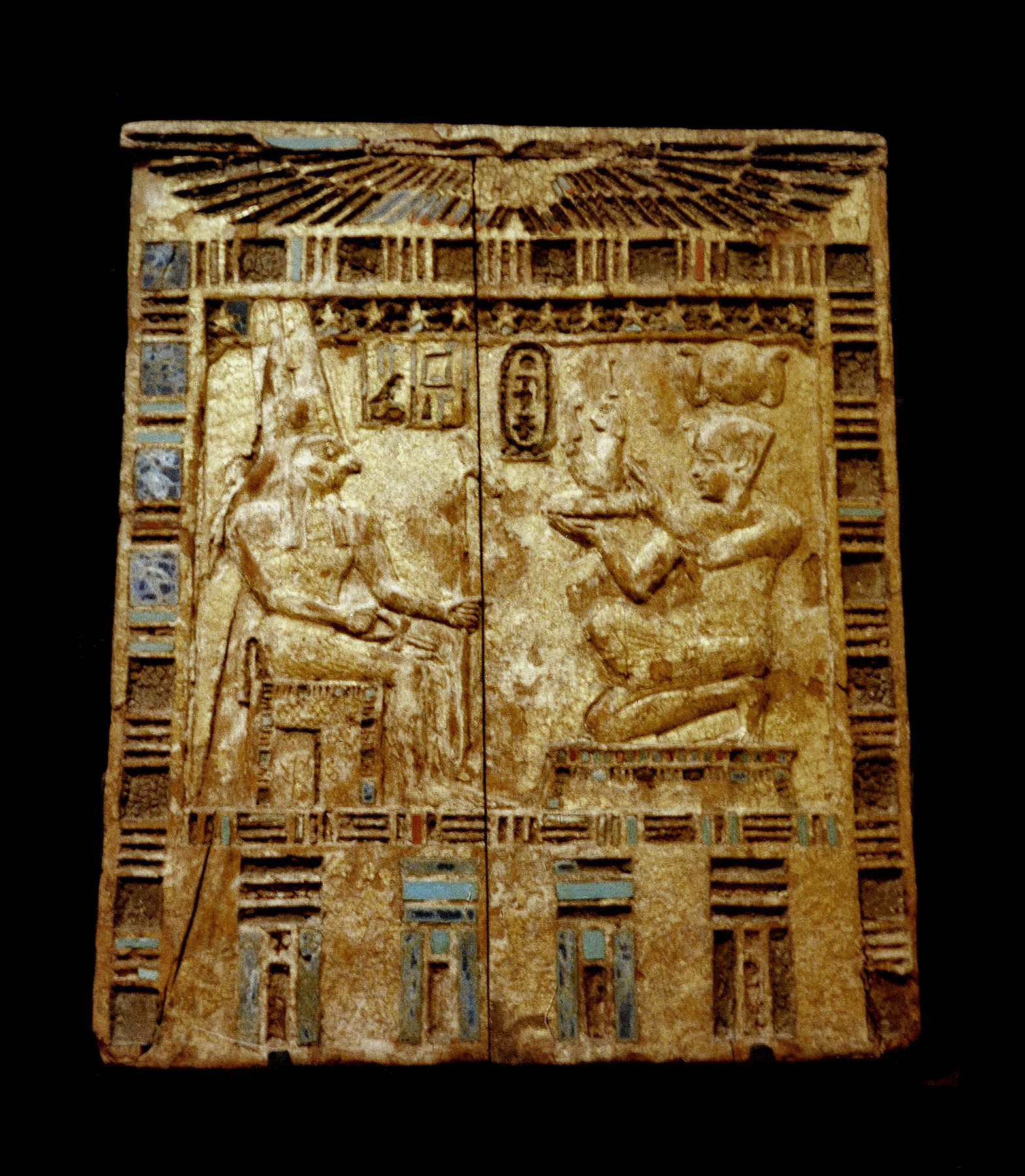 Khnumibre (Ahmes III) in front of Sopdu, Louvres Museum, Paris.